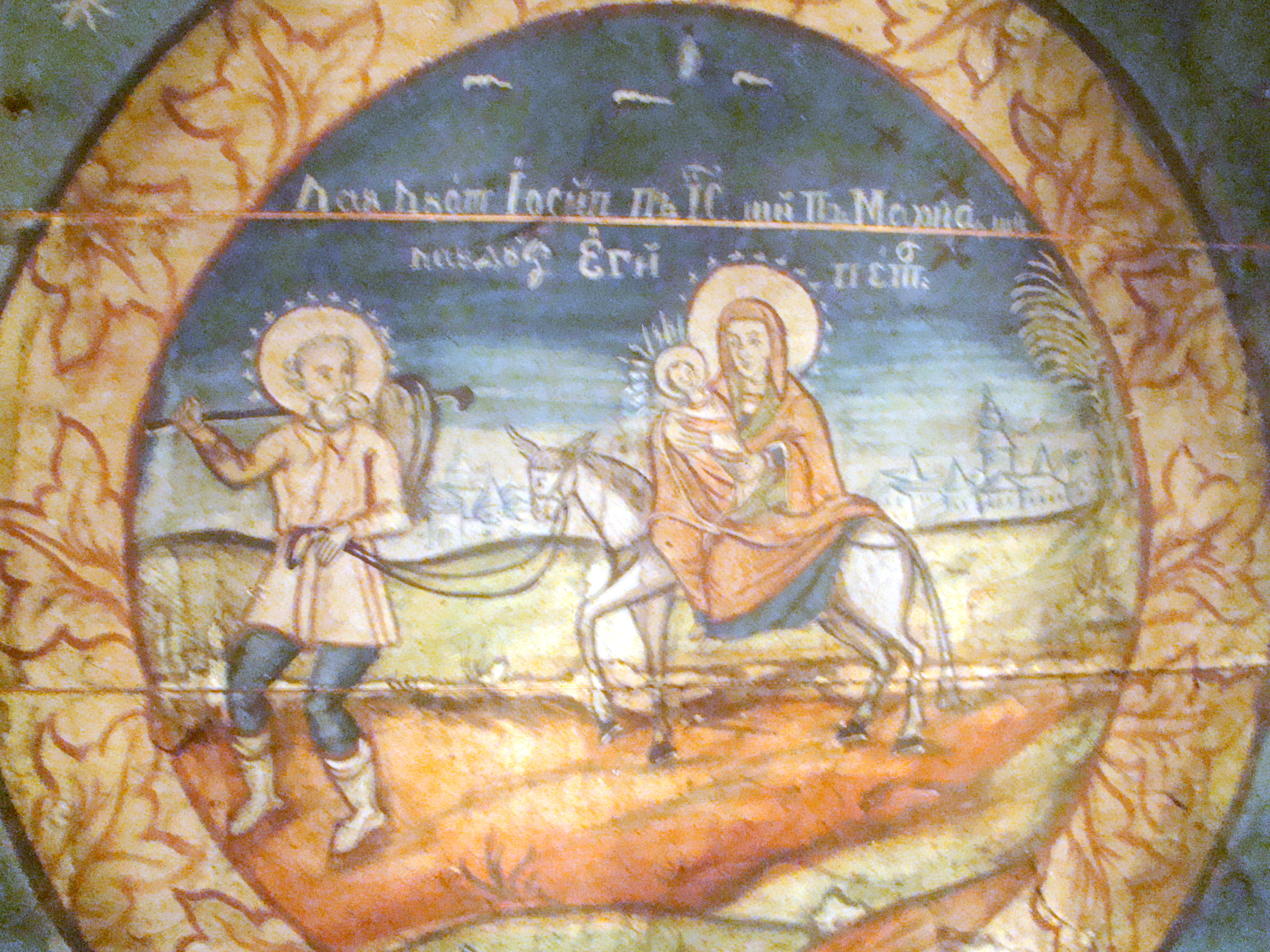 Interior of the wooden church in Basarabasa, Hunedoara county, Romania